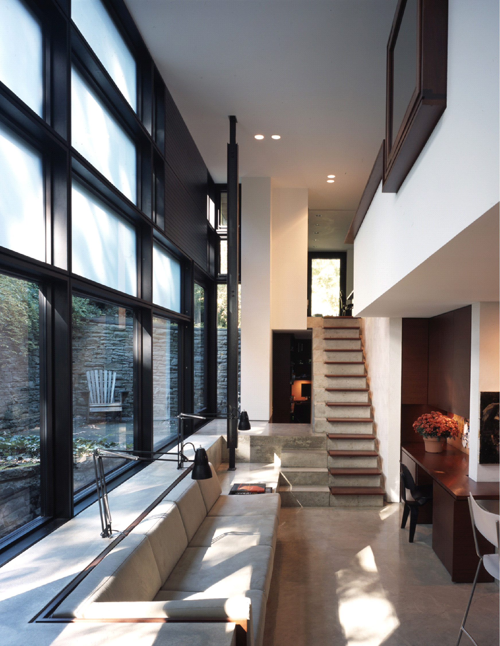 This work is free and may be used by anyone for any purpose. If you wish to use this content, you do not need to request permission as long as you follow any licensing requirements mentioned on this page.